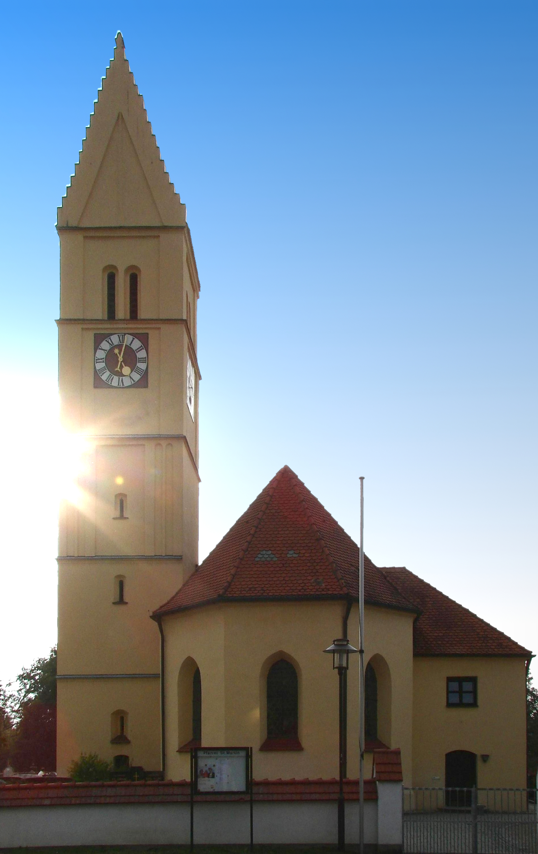 St. Martin's church in Aresing, Bavaria